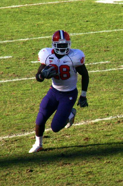 C.J. Spiller cuts outside against the Maryland Terrapins on October 27, 2007.